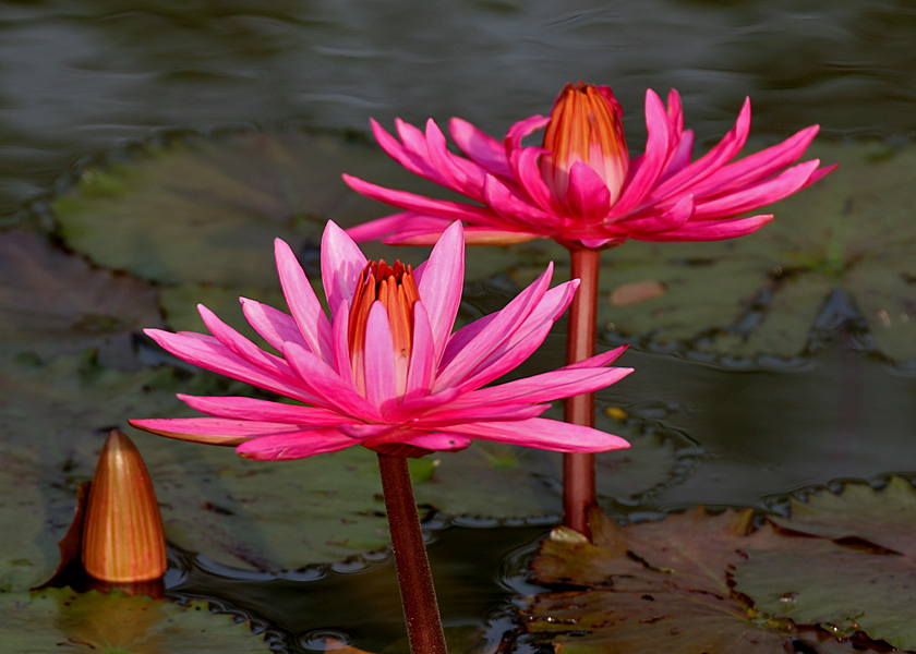 Nymphaea pubescens (sy. N. rubra), also known as the Indian Red Water Lily, Kanval, Koka, Lalakamal, Raktakamal, Allitamara, Allitamarai and Nyadale huvu, in Hyderabad, India.